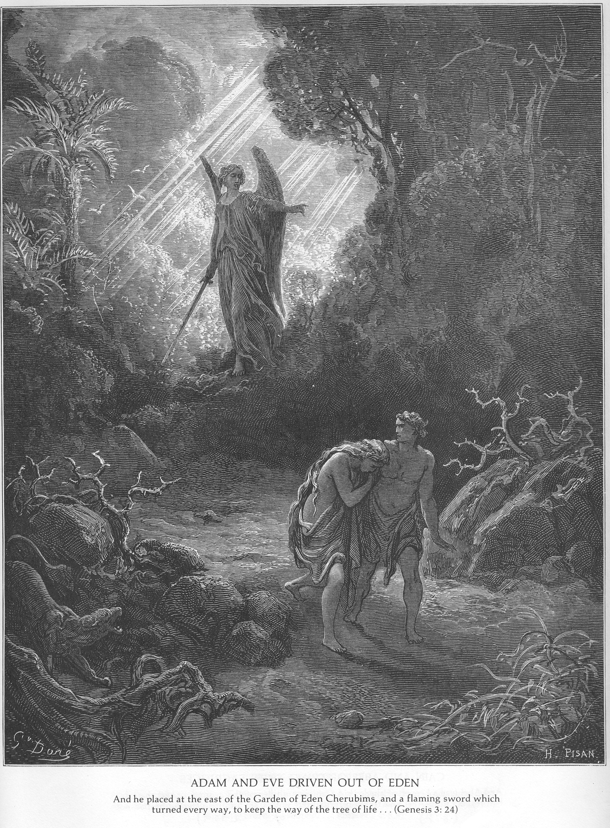 Adam and Eve Are Driven out of Eden by Gustave Dore. Picture portrayed over passage in Genesis. And he placed at the east of the Garden of Eden Cherubims, and a flaming sword which turned every way, to keep the way of the tree of life (Gen. 3:24).